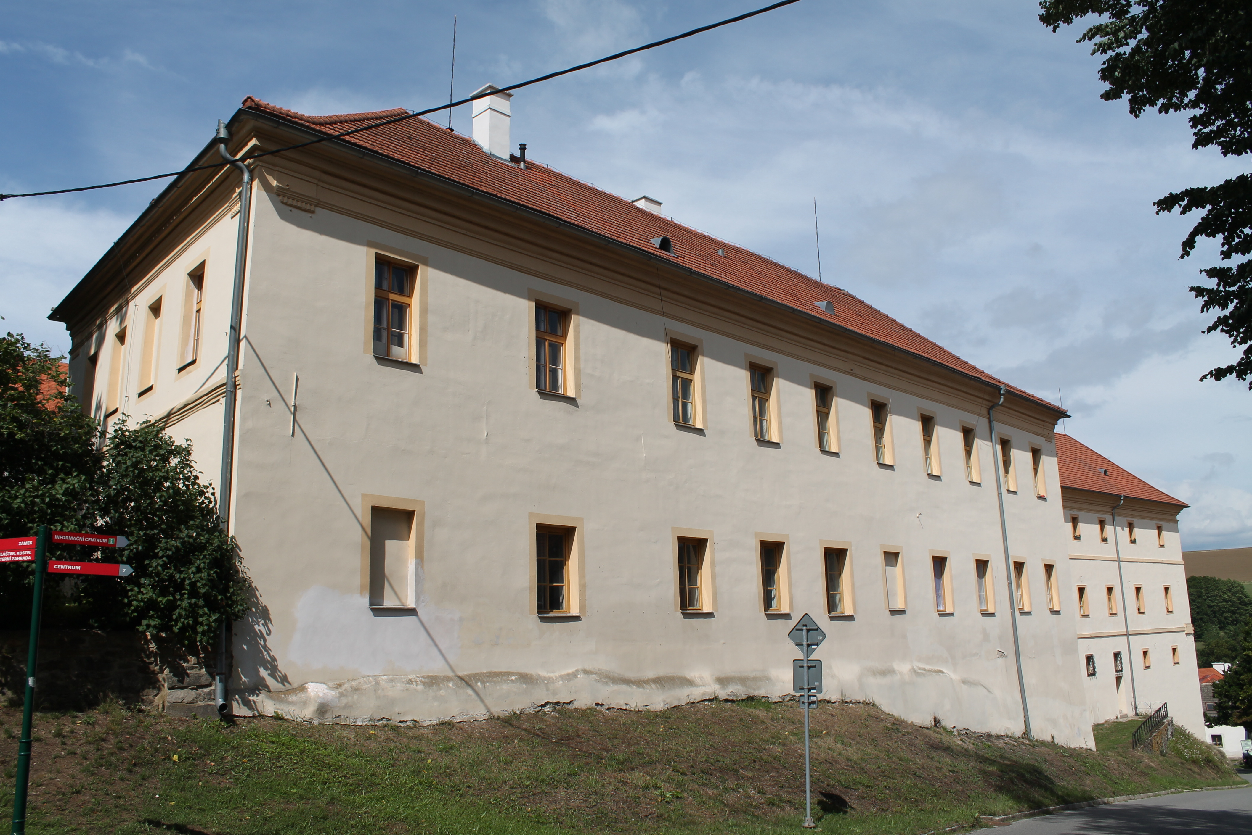 Monastery of Minims, Brtnice, Jihlava District, Czech Republic